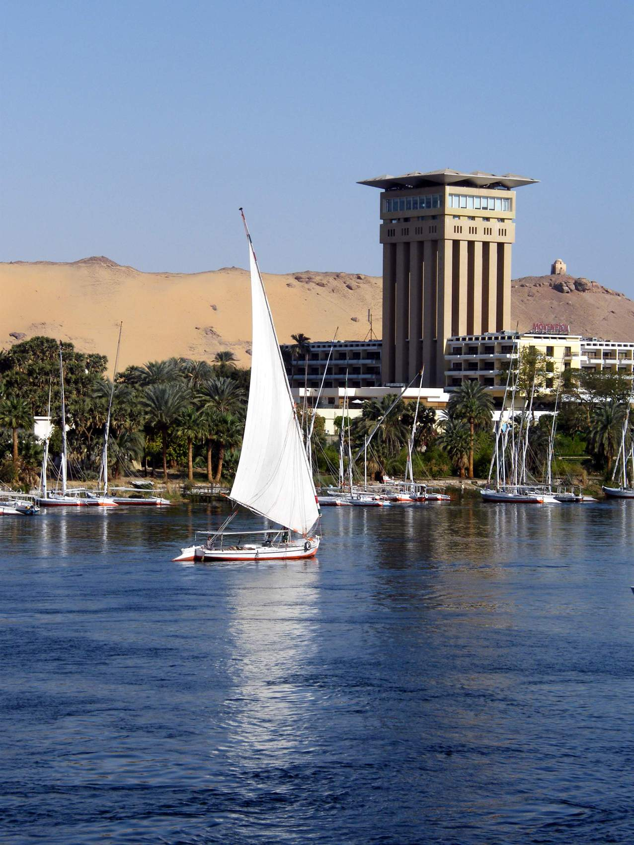 Aswan, Aswan Governorate, Egypt